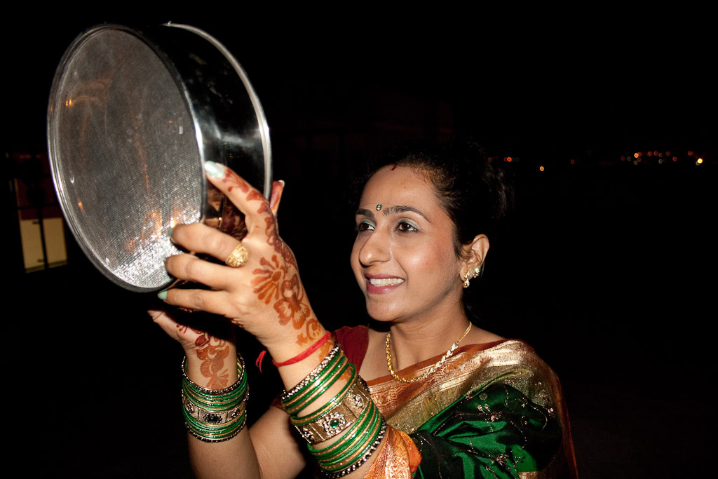 This was shot during Karva Chauth last year as this lady was looking at the moon through the sieve. Karva Chauth is a north indian tradition where the wife fasts for the entire day and prays for the long life of her husband. These days, husbands have also started fasting on Karva Chauth to show their love and commitment towards their wife.